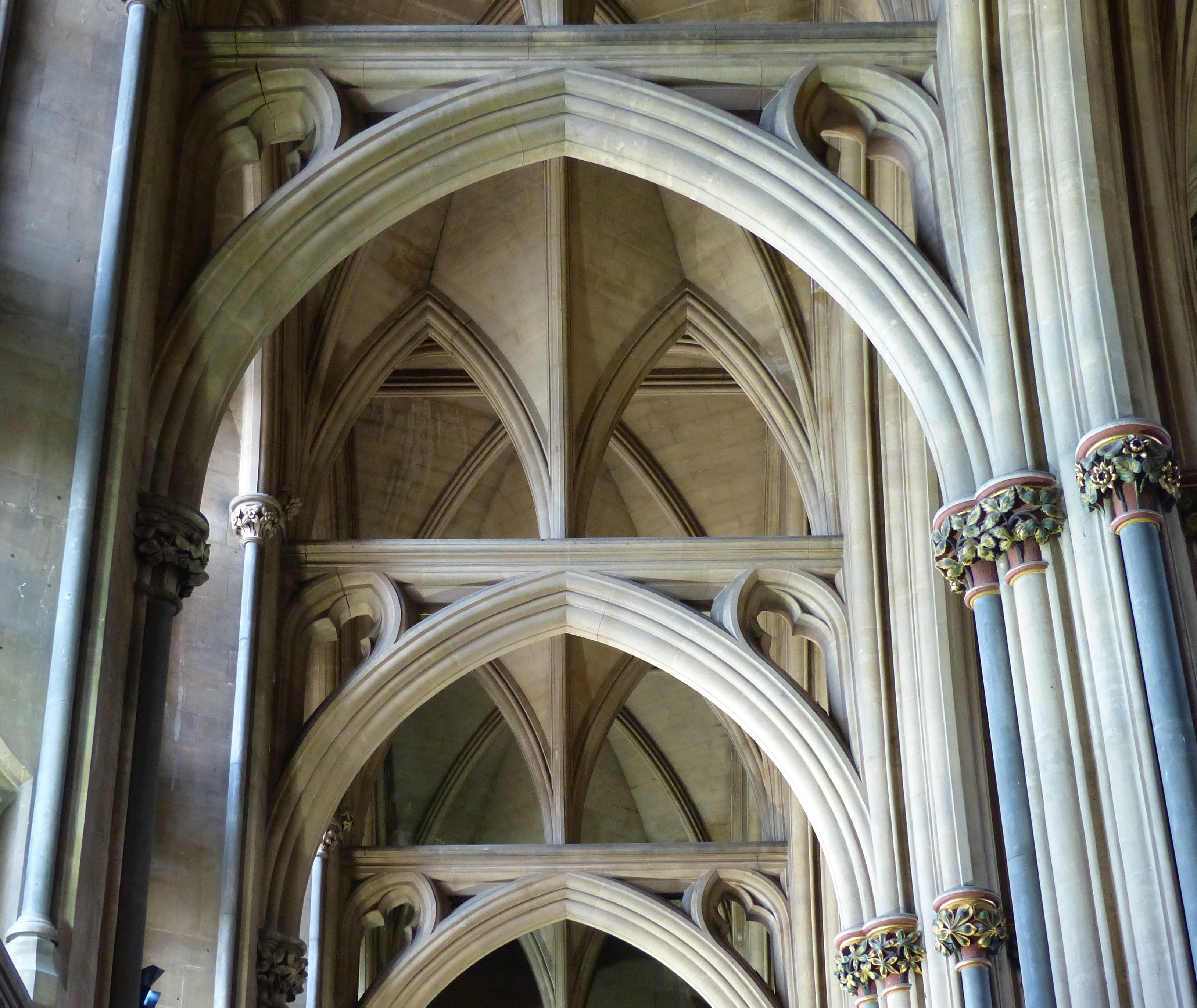 Showing the openwork vaulting of the Bristol nave aisle, 19th century